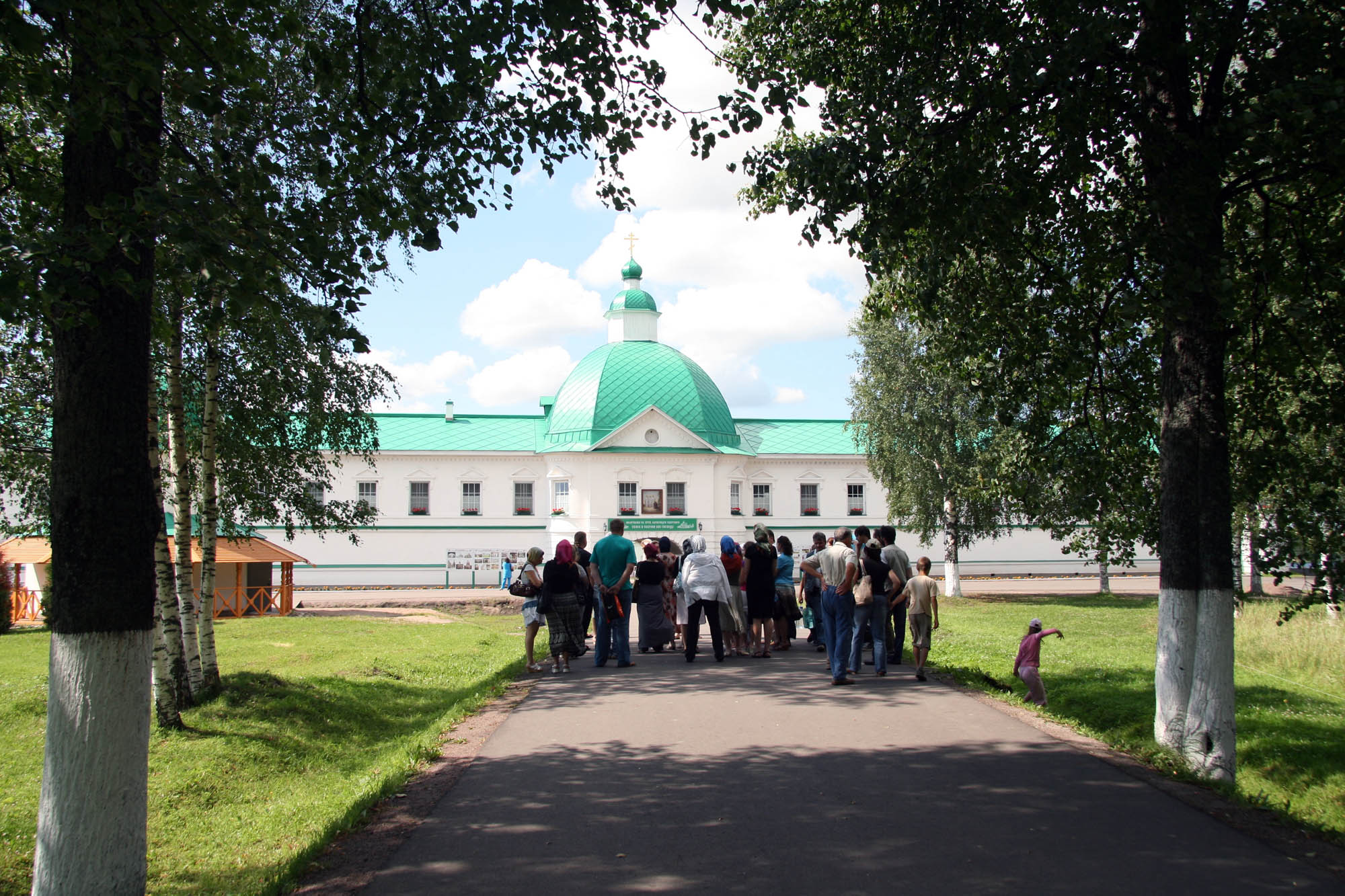 Alexander-Svirsky Monastery, Russia